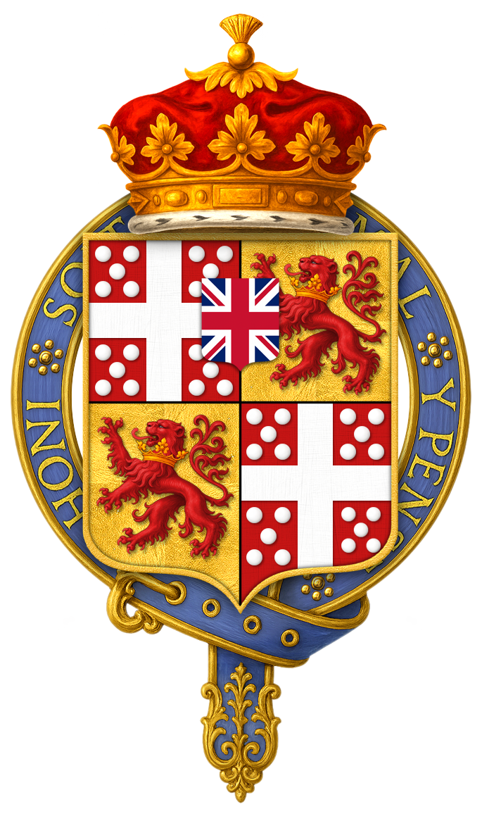 Garter encircled shield of arms of Arthur Wellesley, 4th Duke of Wellington, KG, as displayed on his Order of the Garter stall plate in St. George's Chapel.